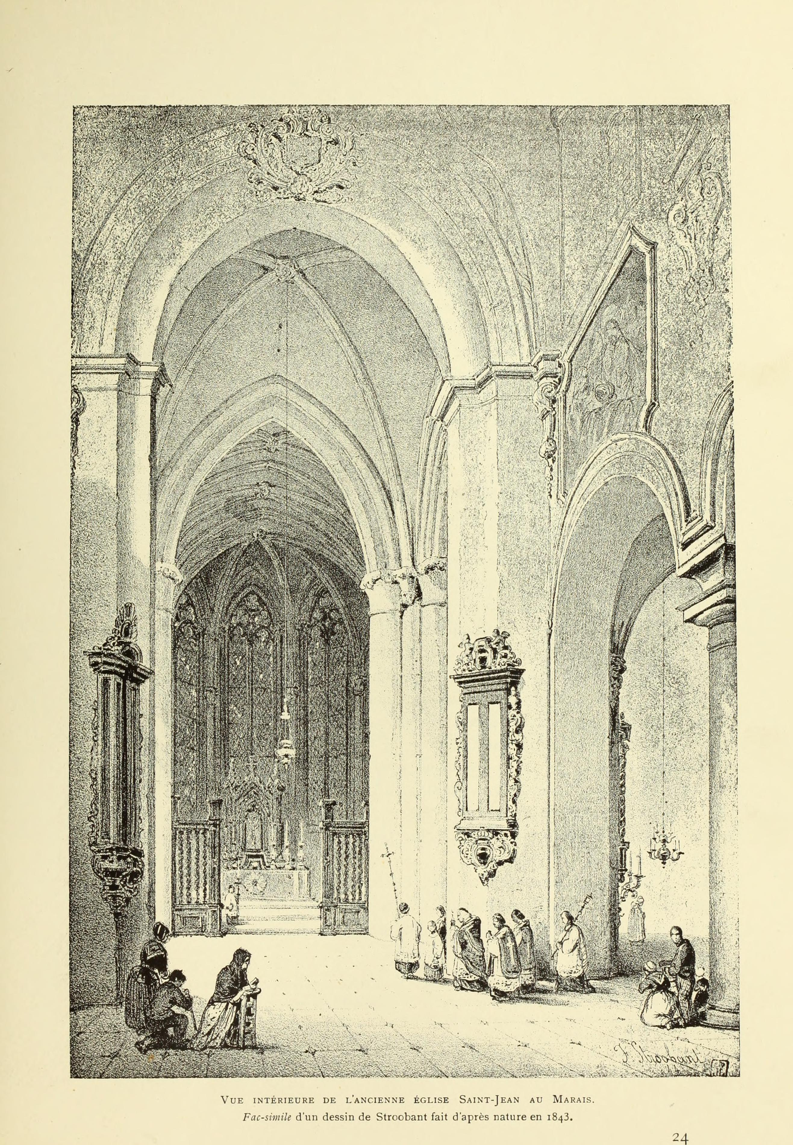 Title: Bruxelles à travers les âges Year: 1884 (1880s) Authors: Hymans, Louis Salomon, 1829-1884 Hymans, Henri, 1836-1912 Hymans, Paul, 1865-1941 Subjects: Publisher: Bruxelles : Bruylant-Christophe Text Appearing Before Image: Lancienne église Saint-Jean au Marais, vue prise de lintérieur de lhôpital.Fac-similé dun dessin de Stroobant fait daprès nature en 1843. Text Appearing After Image: i86 BRUXELLES MODERNE. très achalandé. Il avait une superbe collection de canaris, dont il faisait un trafictrès lucratif. Les terrains que couvrent la monumentale façade de lhôpital Saint-Jean, les neufpavillons où sont logés les malades, les dépendances, la chapelle et les larges coursquelles enferment de leurs hautes murailles grises, étaient occupés autrefois par levieil hospice Pachéco, que lon transféra au boulevard de Waterloo, et par desmaisons particulières entourées de jardins. Lhôpital Saint-Jean était installé dans les locaux de léglise Saint-Jean. Cétaitune sorte de petite cité, sétendant de la rue de lHôpital à la rue de la Madeleine;léglise se dressait au milieu; à ses murs décrépits saccrochaient de petites maisonsmodernes à toits dardoise. De droite et de gauche sélevaient de vieux bâtiments enpierre de taille contenant des salles de malades, les habitations des sœurs et desgens de service. Au centre, devant léglise, souvrait une cour i